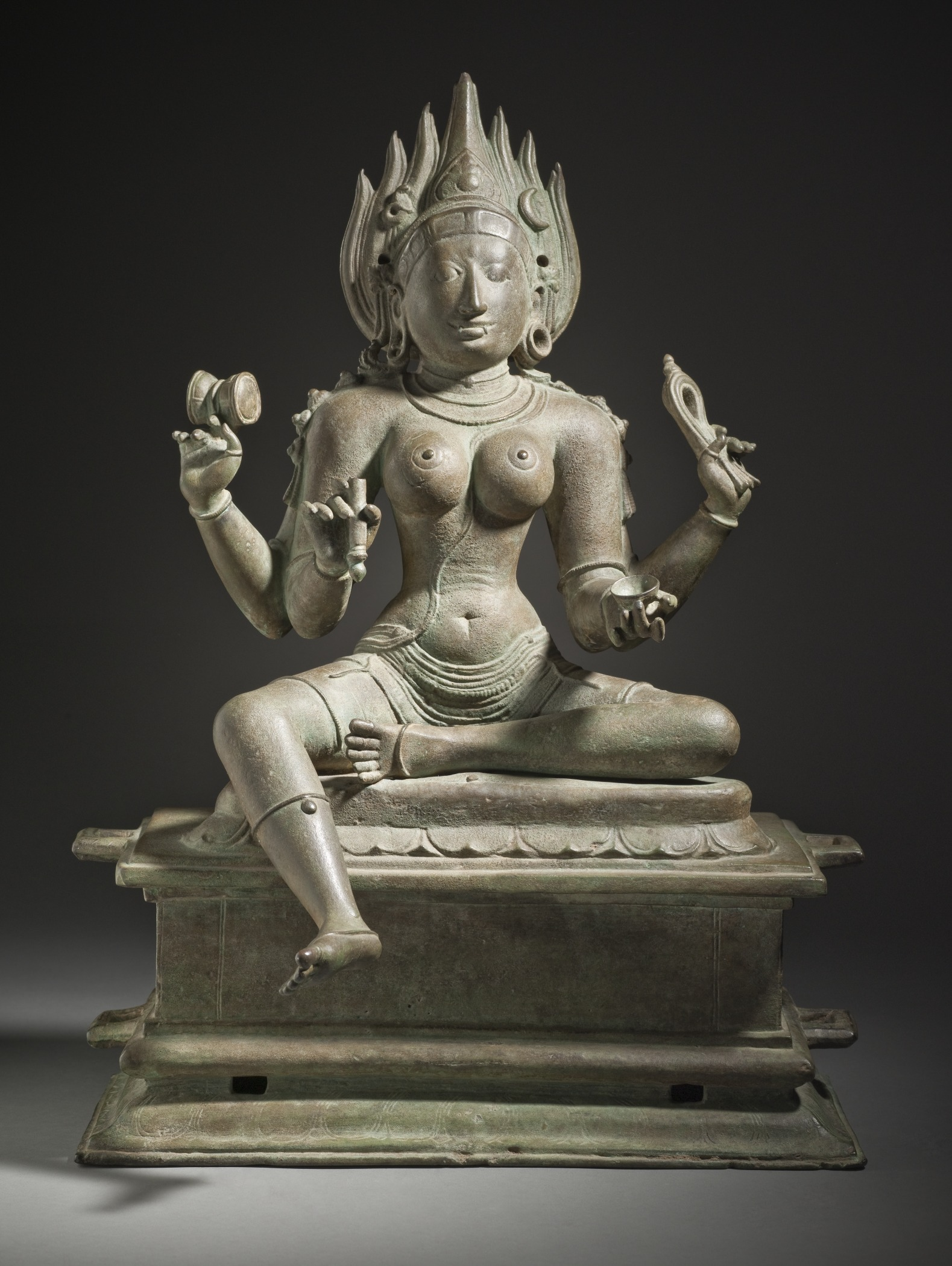 India, Tamil Nadu, 11th century Sculpture Copper alloy Purchased with Harry and Yvonne Lenart Funds and the Museum Acquisition Fund (M.83.48) South and Southeast Asian Art